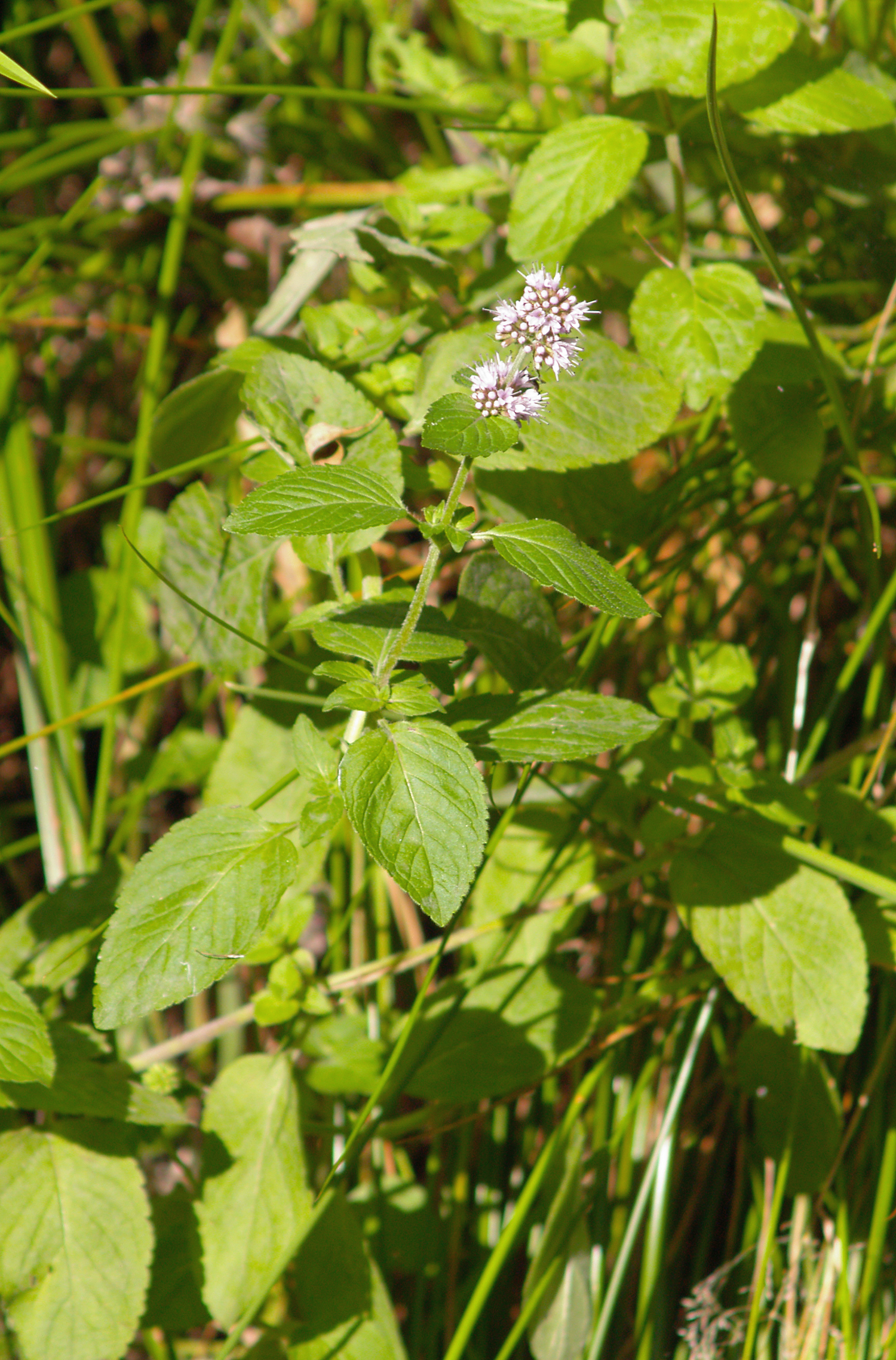 Water-mint (Mentha aquatica), Chemnitz, Germany